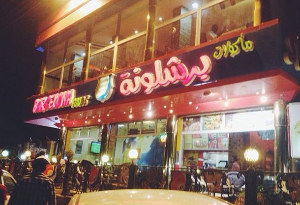 This is an image of food from Sudan